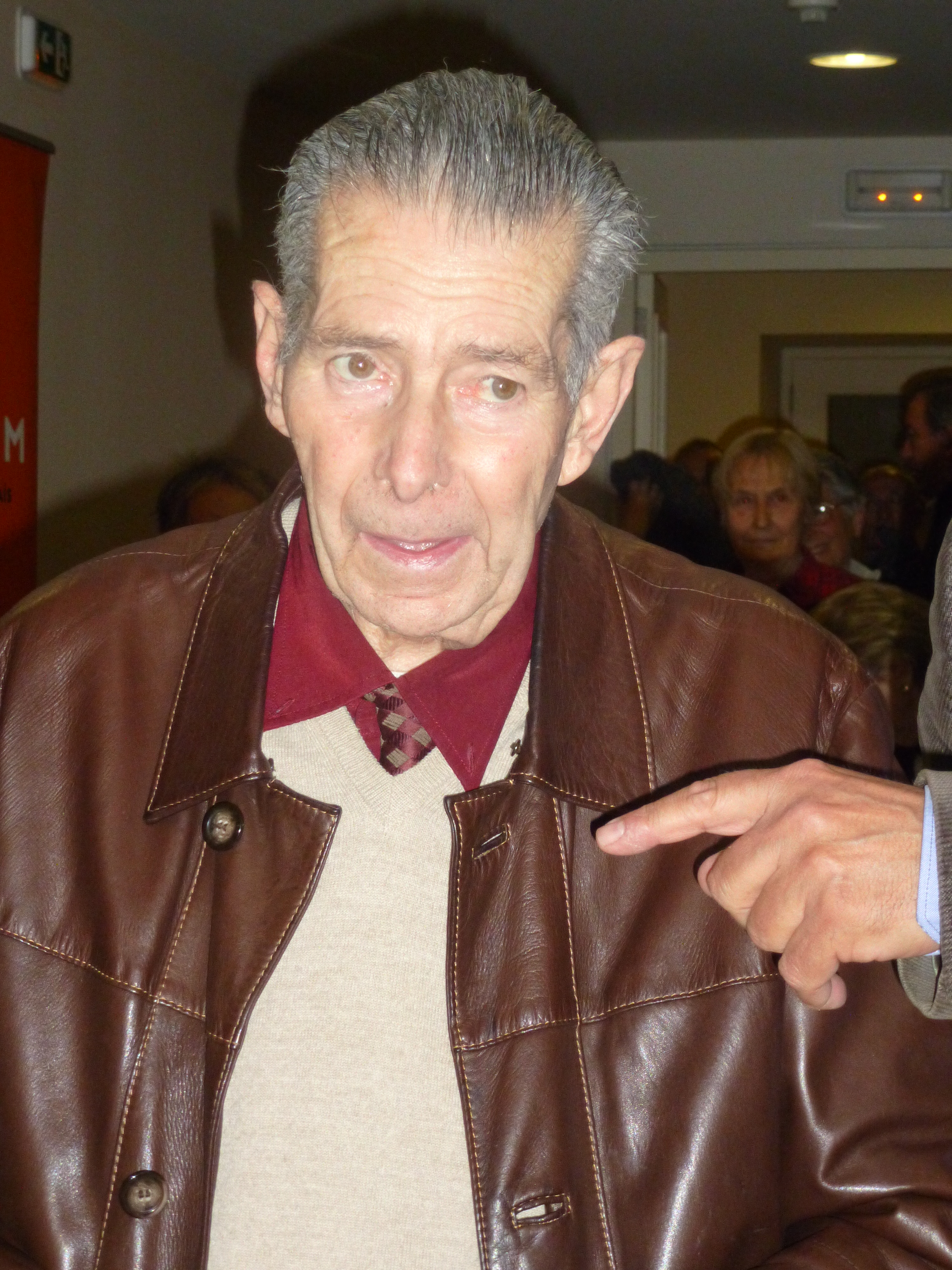 Gabriel Mora i Arana en l'acte d'homenatge 2014